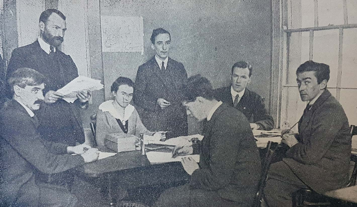 A photograph of a group of Irish political figures in Liberty Hall, Dublin, January 1919. Standing L-R: William X. O'Brien and Cathal O'Shannon. Sitting L-R: Thomas Foran, Nora Connolly O'Brien, David O'Leary, Seamus Hughes and Patrick O'Kelly